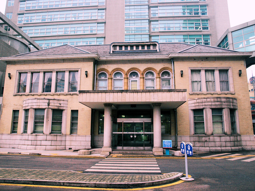 kyoungkyoJang